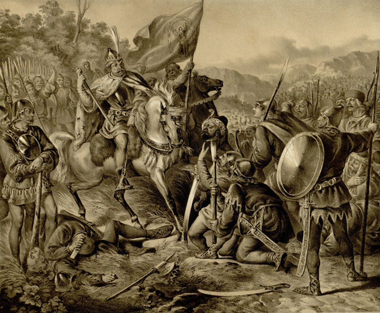 Lithograph of the victory of king Stefan Milutin over Tatars by Anastas Jovanović. This is a retouched picture, which means that it has been digitally altered from its original version. Modifications: Cropped Victory_of_king_Milutin_over_Tatars.jpg.